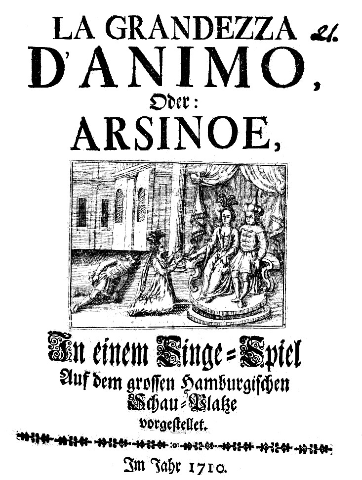 Reinhard Keiser - Arsinoe - titlepage of the libretto from 1710